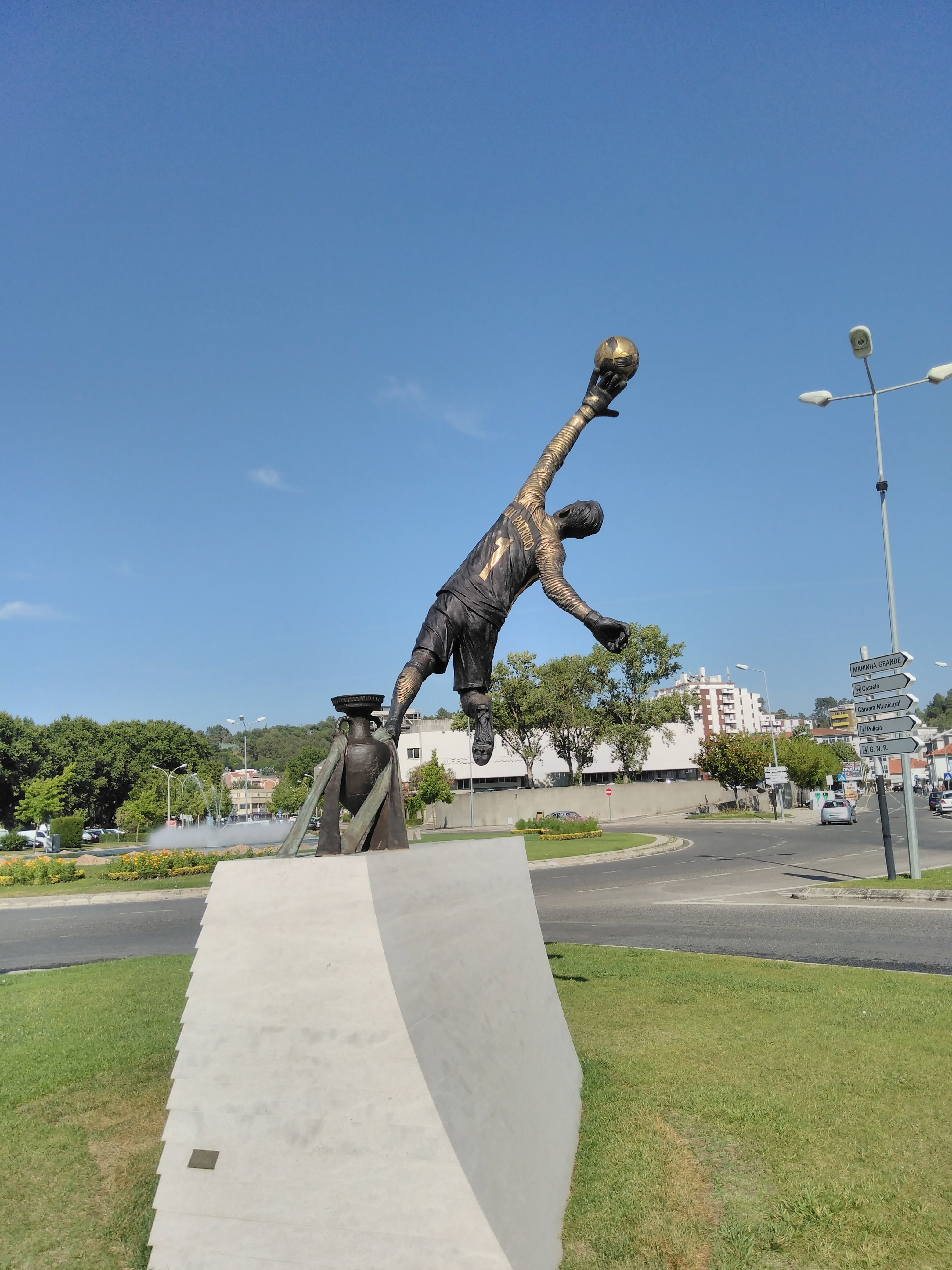 The dive of Rui Patricio